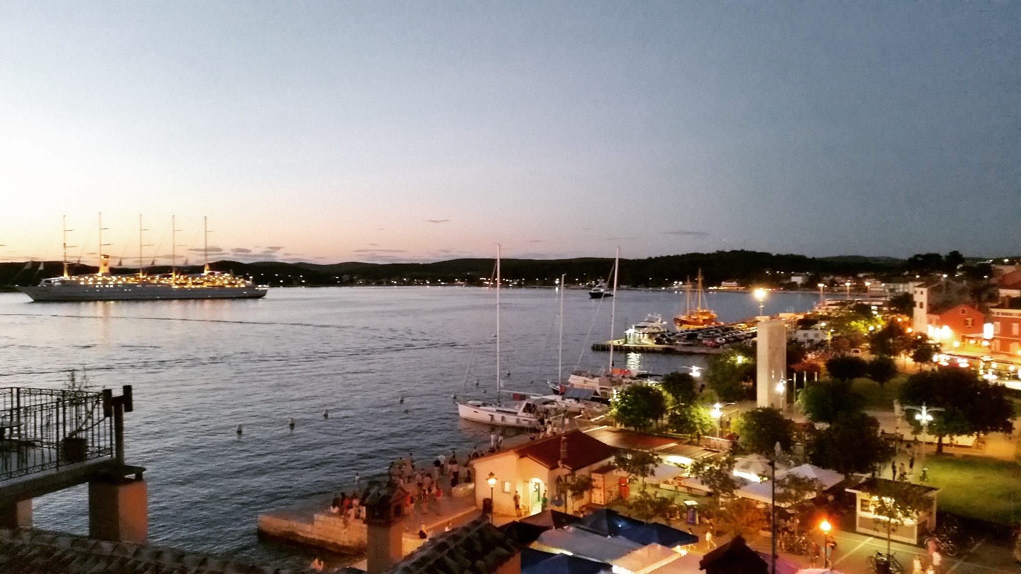 Rovinj harbour at sunset taken from our appartment